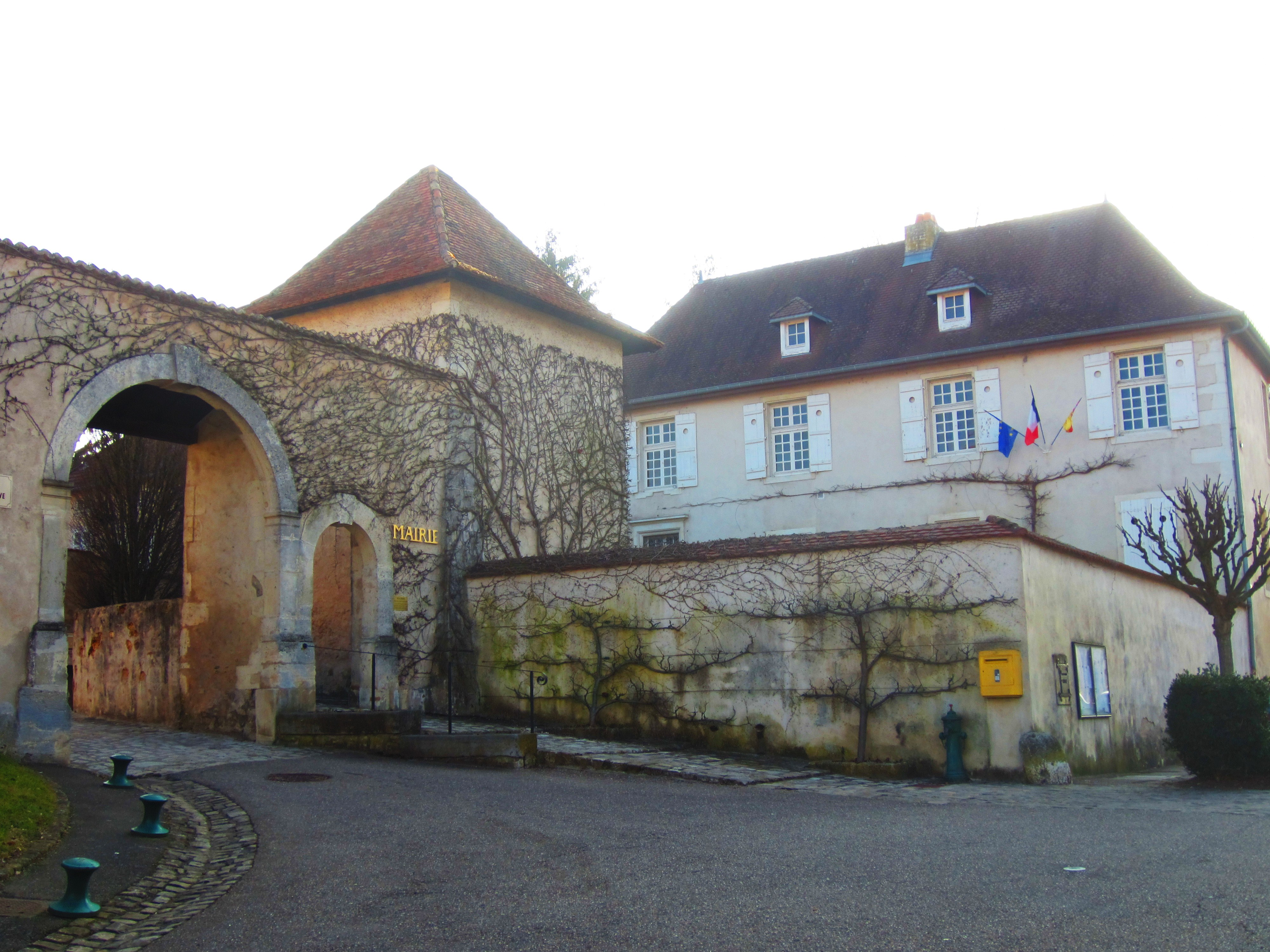 Maidieres town council